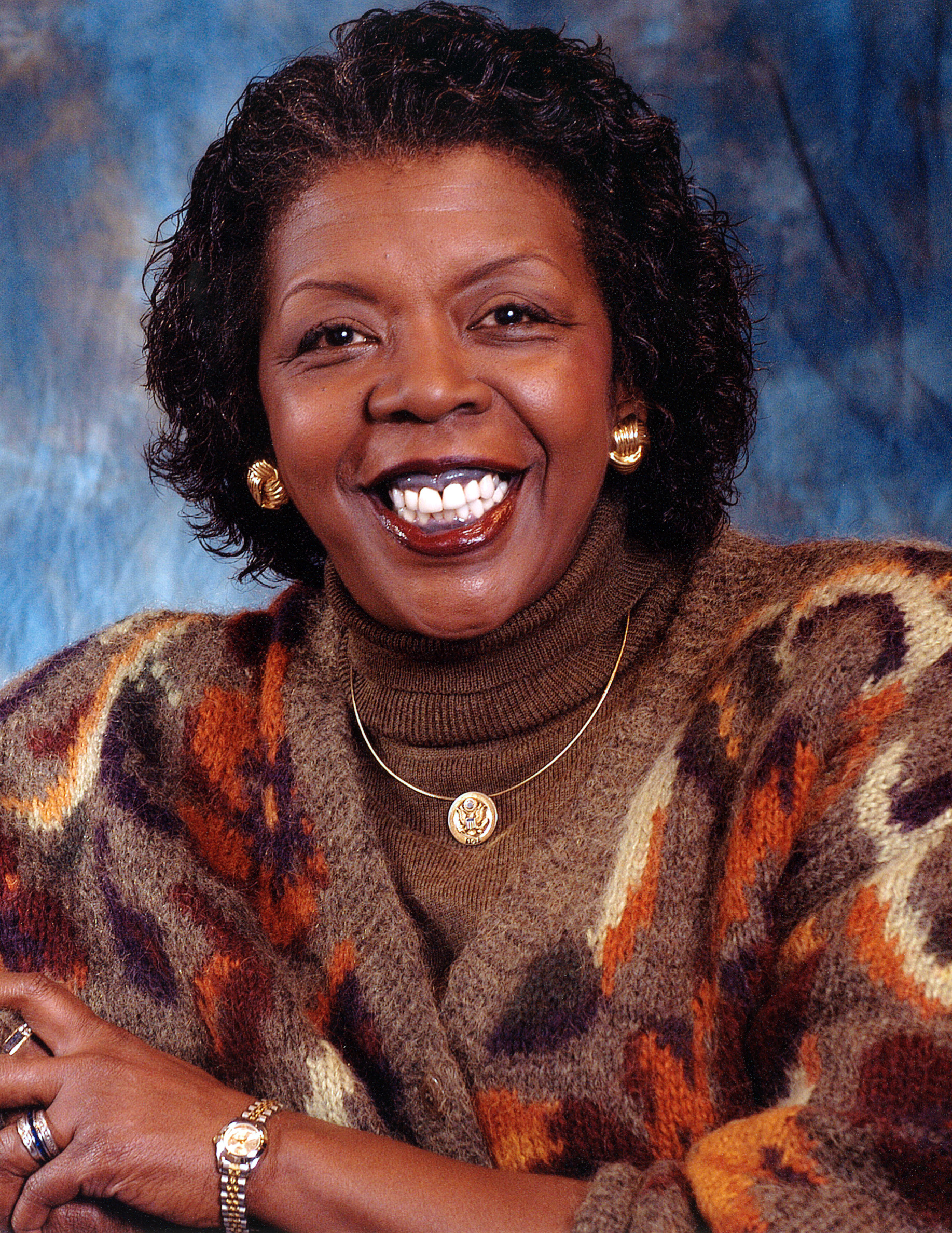 Rep. Stephanie Tubbs Jones official headshot from biography and press kit